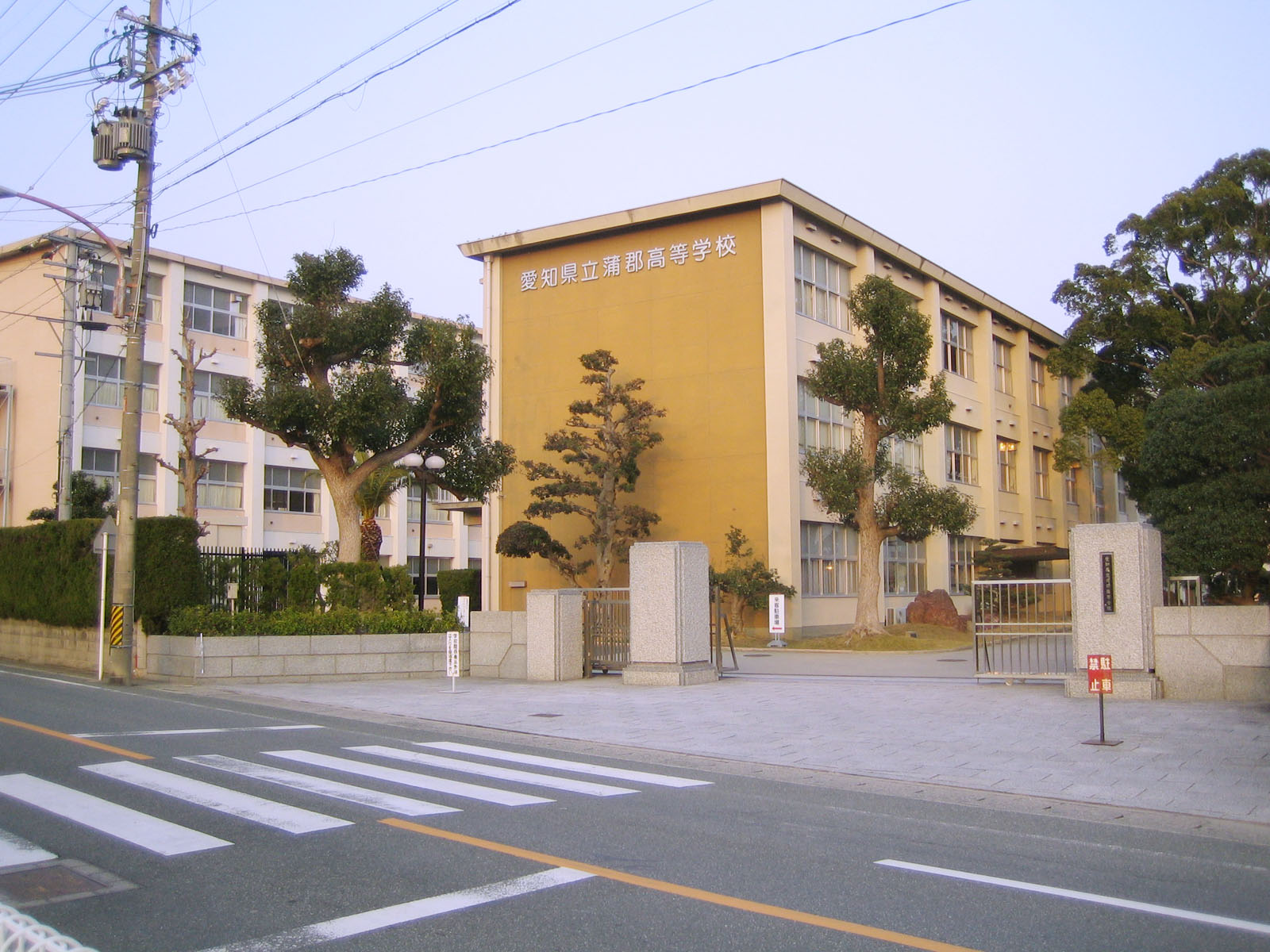 The main gate of Gamagori High School (愛知県立蒲郡高等学校), in Gamagori, Aichi, Japan